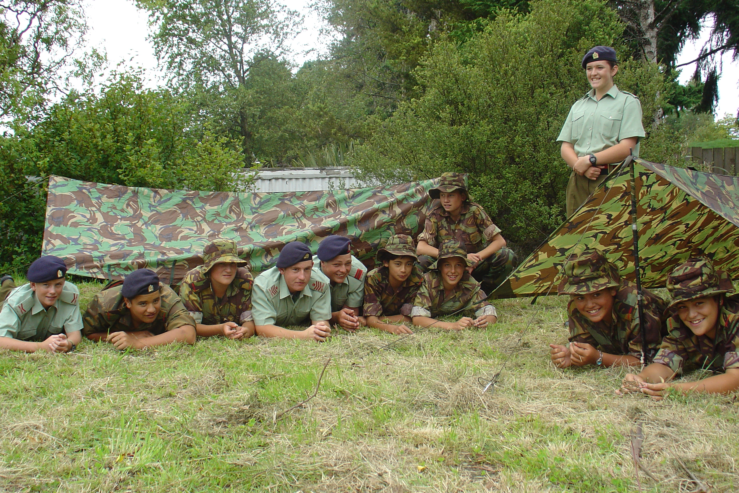 A photo of a unit of the New Zealand Cadet Corps This Photo was taken by User:Brian New Zealand